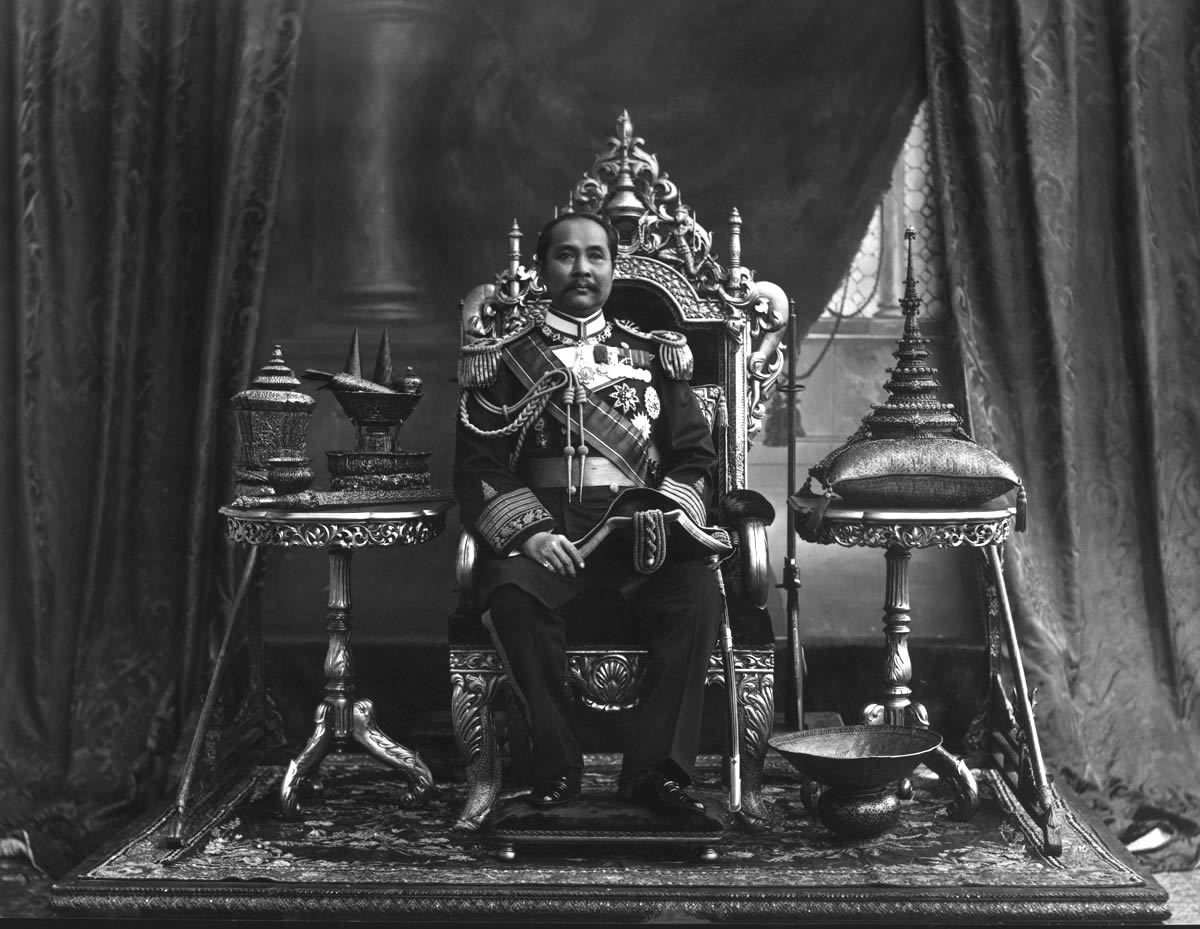 King Chulalongkorn on his Throne